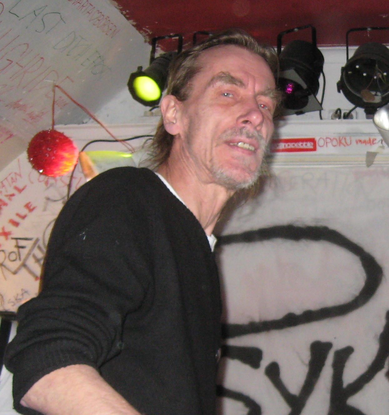 Tompa Eken performing with Psykbryt.